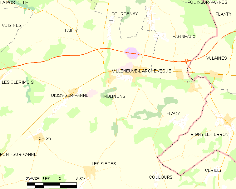 Map of French municipality Molinons